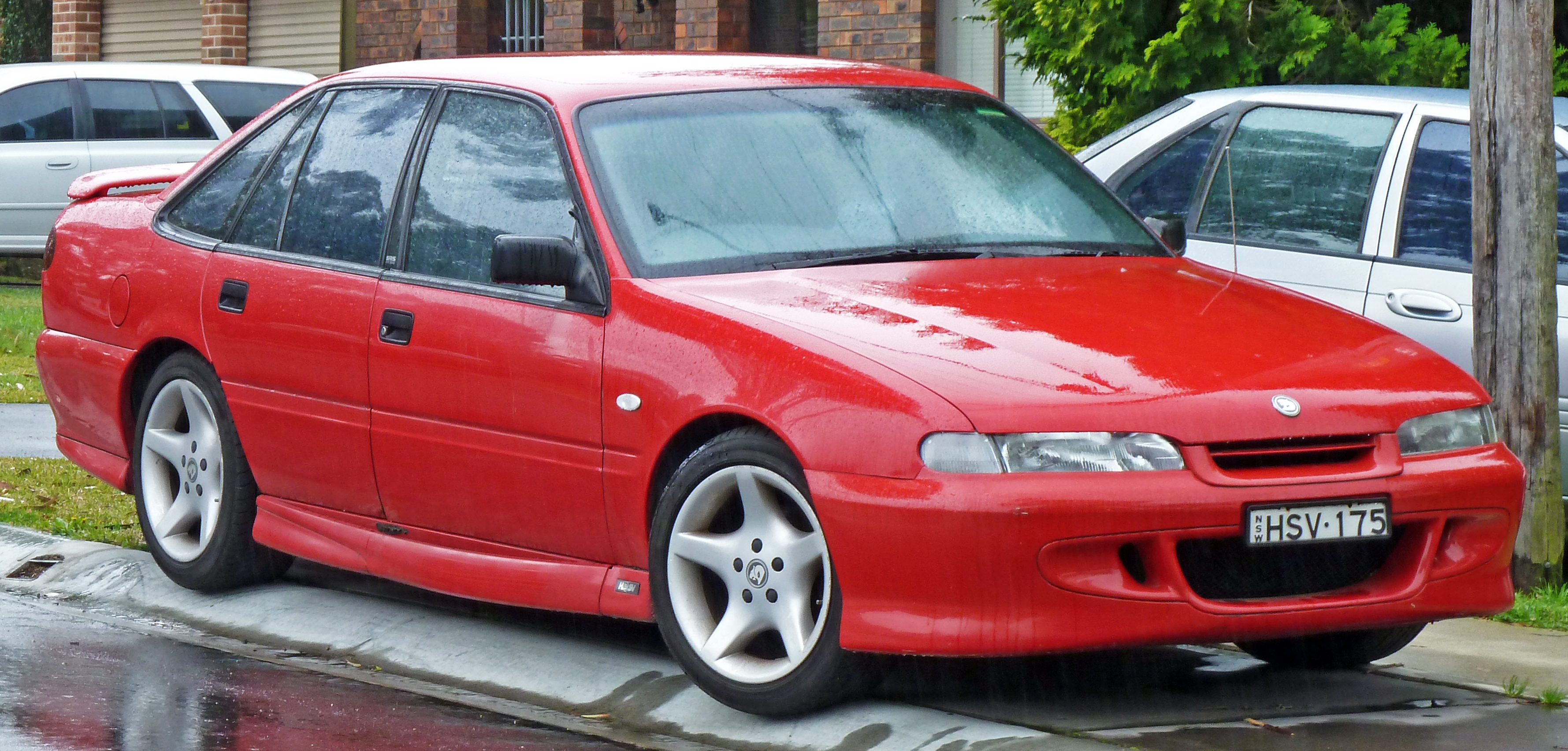 1993 HSV Clubsport (VR) sedan. Photographed in Miranda, New South Wales, Australia.